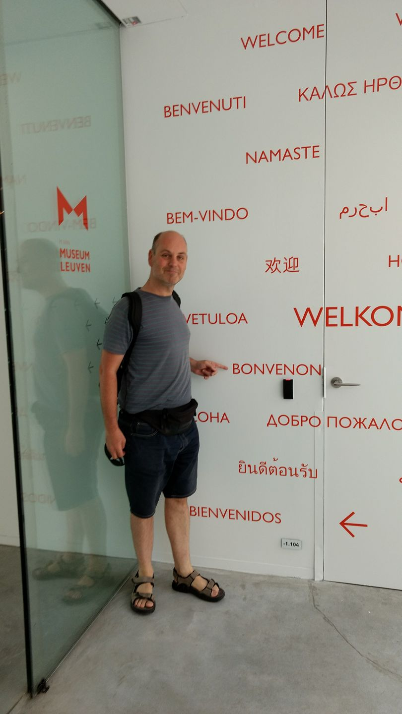 Multilingual Welcome Text at the entrance of Museum M in Leuven, inlcuding Esperanto